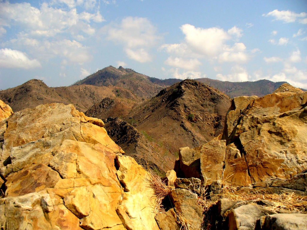 Capa Fatucama, Dili, East Timor